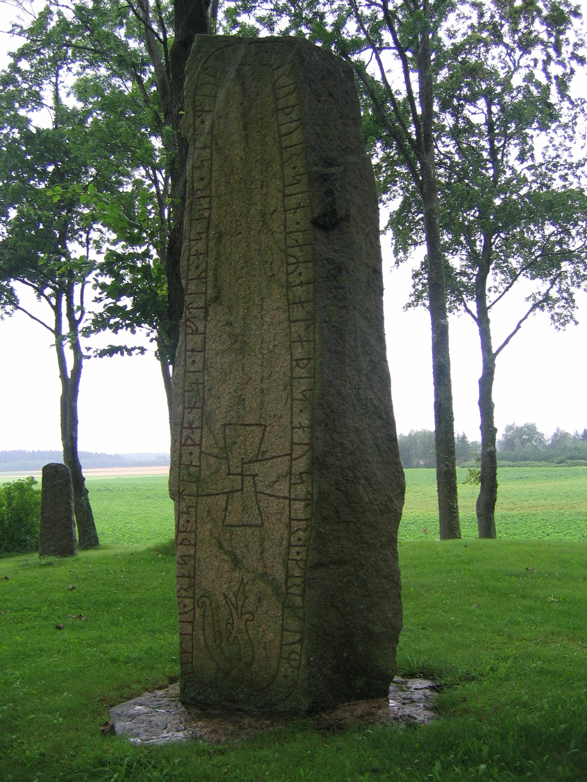 Side A of runestone Ög 81, located on the defunct cemetery of the former Högby church south of Motala, in Östergötland, Sweden.